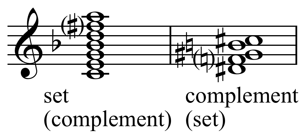 Side-slipping complementation: C7 chord/Lydian dominant scale (chord-scale system) and complement. Created by Hyacinth (talk) 22:46, 9 November 2011 using Sibelius 5.